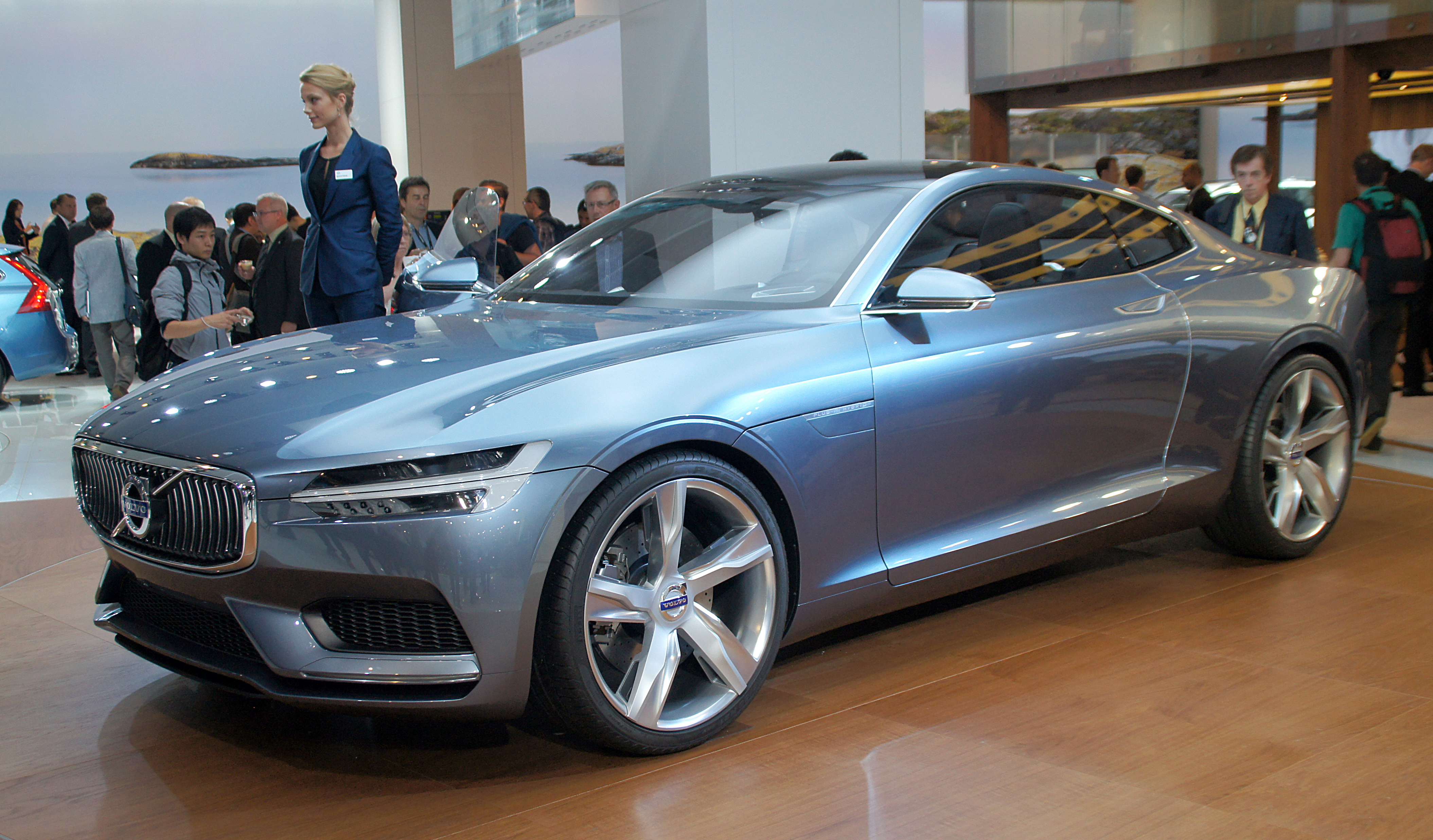 Volvo Concept Coupé, designed by Thomas Ingenlath, shown at Frankfurt Motor Show, 2013, as a study of elements used for the 2014 XC90 Edition